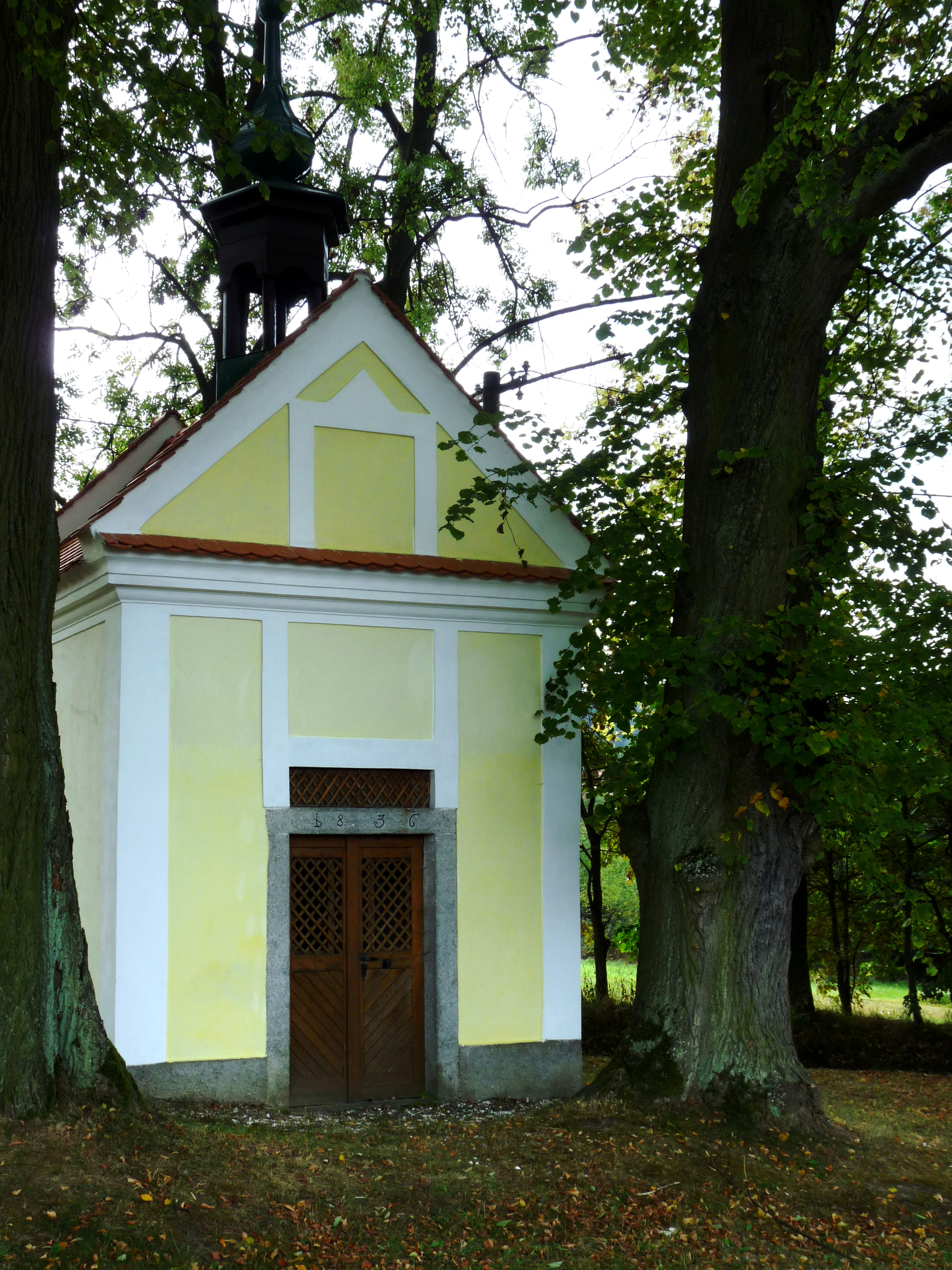 Chapel in the village of Zubčická Lhotka, Český Krumlov District, South Bohemian Region, Czech Republic.